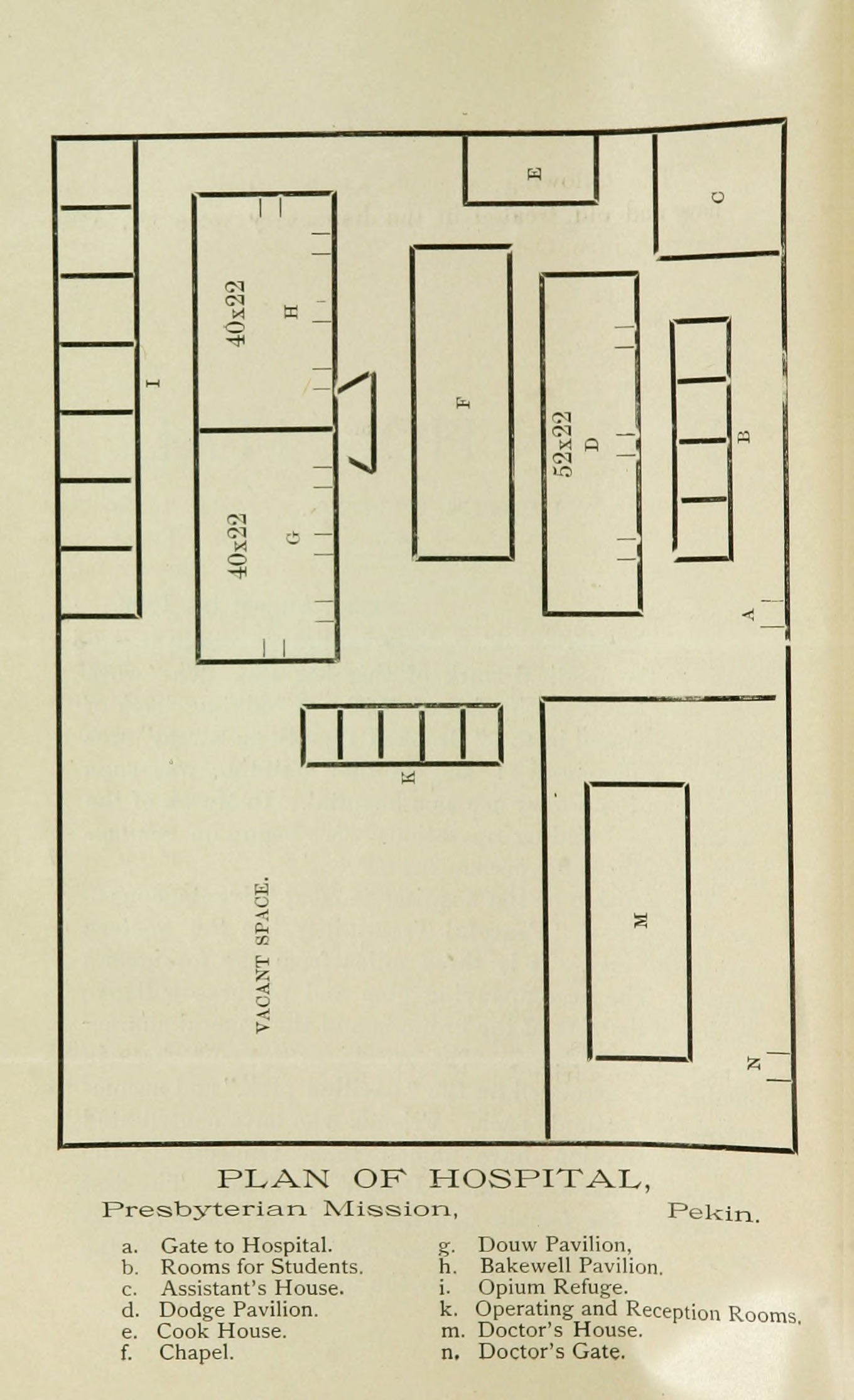 Floor plan of Peking Hospital of Presbyterian Church in the USA